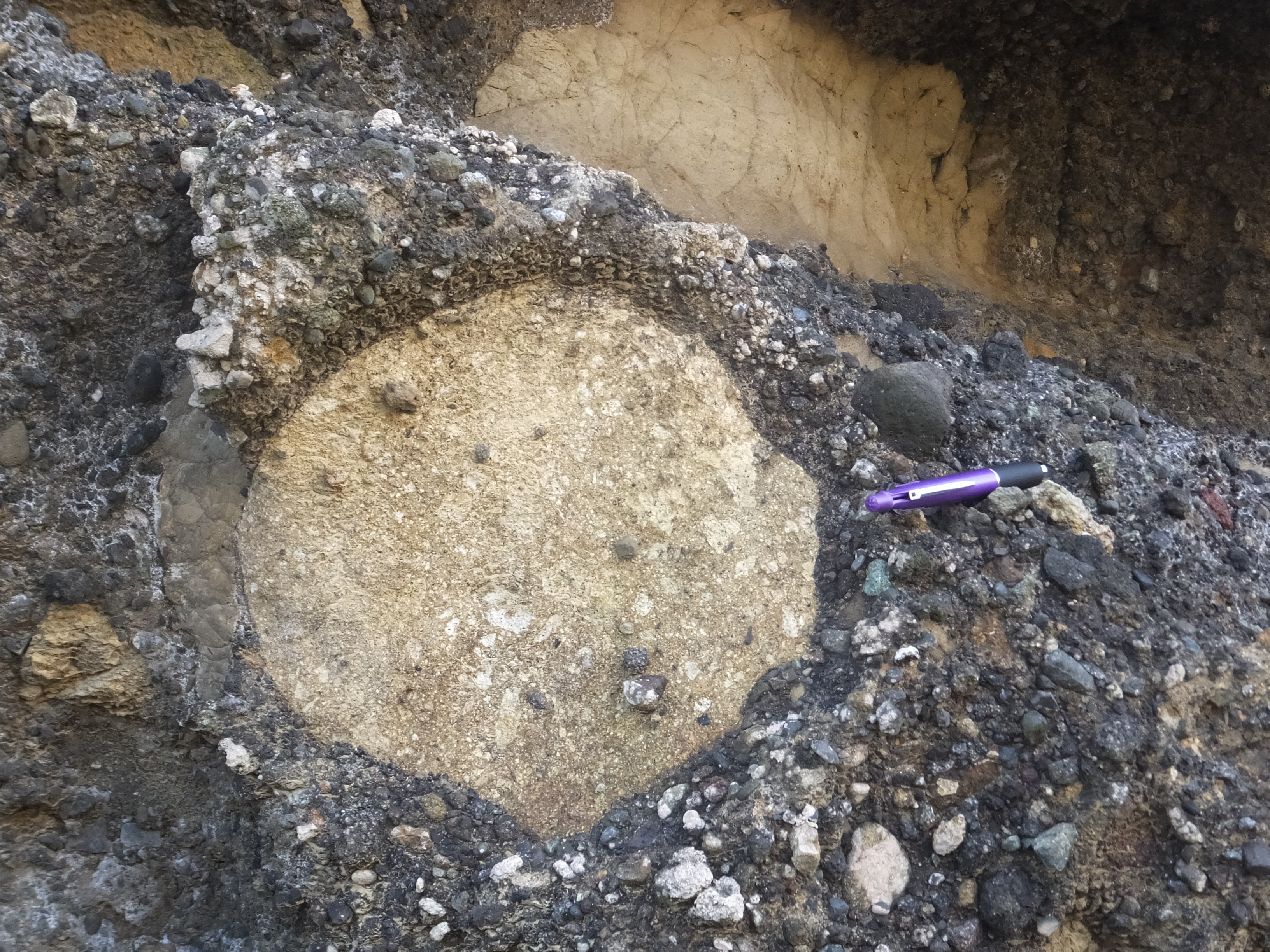 A pseudoconglomerate is in a stratum of conglomerate. At Nojimazaki, in Bōsō Peninsula in Japan.